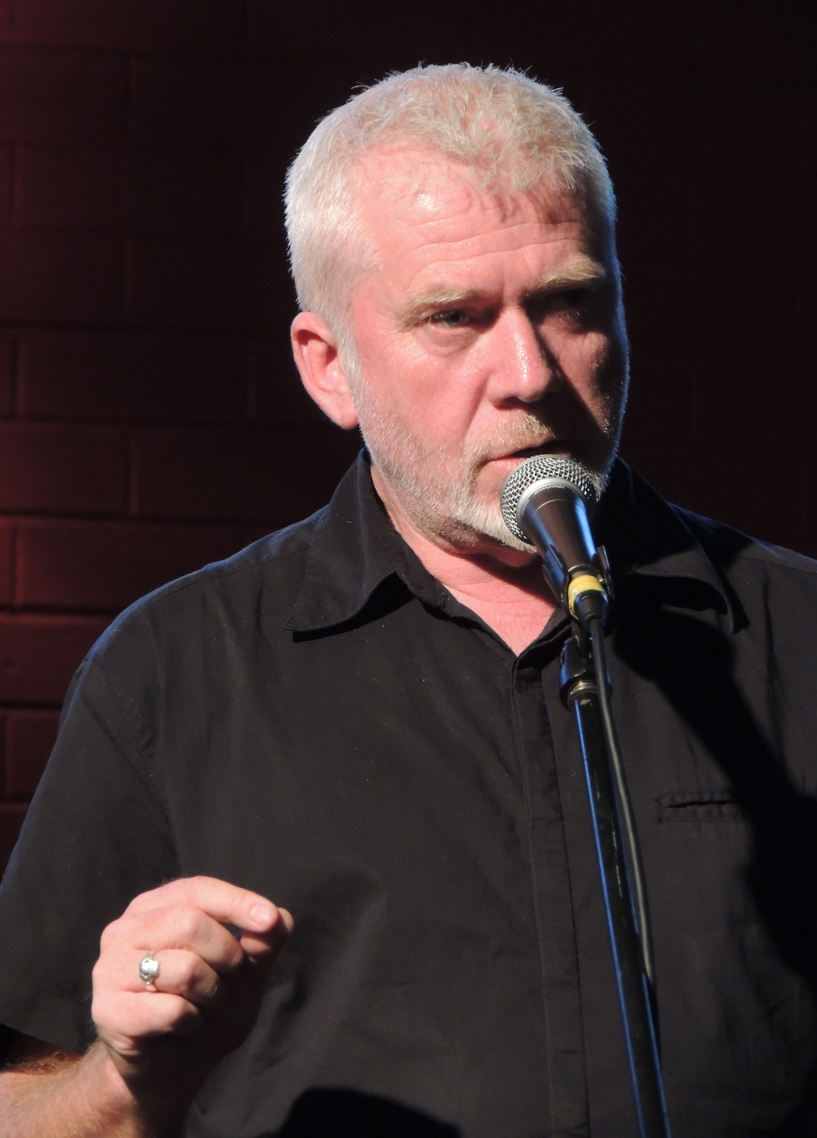 Craig Wilkins speaks at the Governor Hindmarsh Hotel, South Australia (2014)